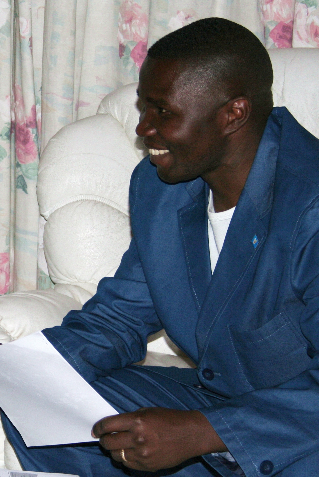 Helen Clark meets with Governor of the North Kivu Province Julien Paluku Kahongya. June 2009, Democratic Republic of Congo